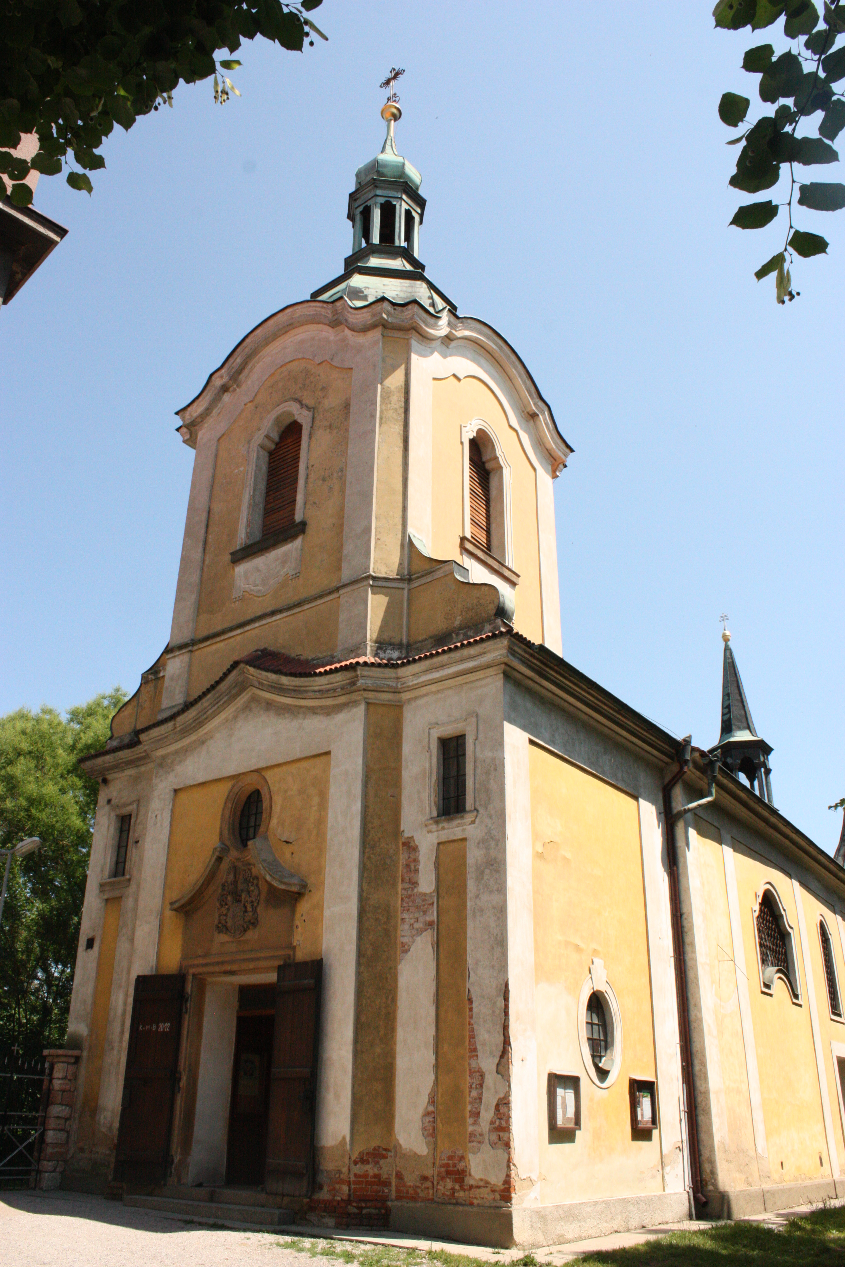 Church of St. Peter and Paul in Liteň, Central Bohemia, Czechia.